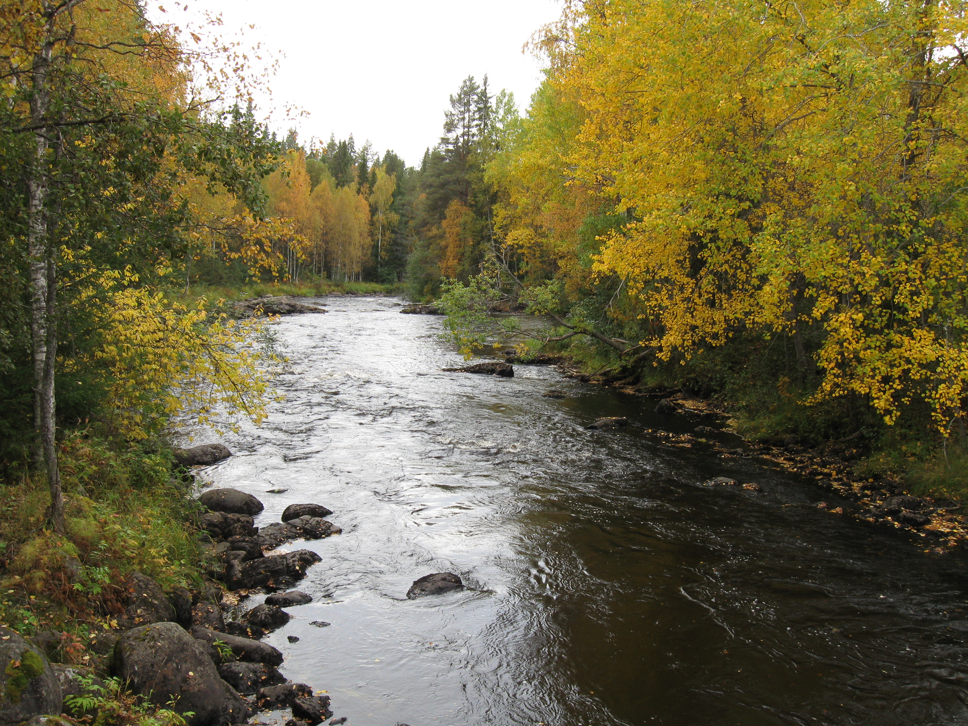 The Kalliuskoski rapids of the Kiiminkijoki river in Puolanka, Finland.